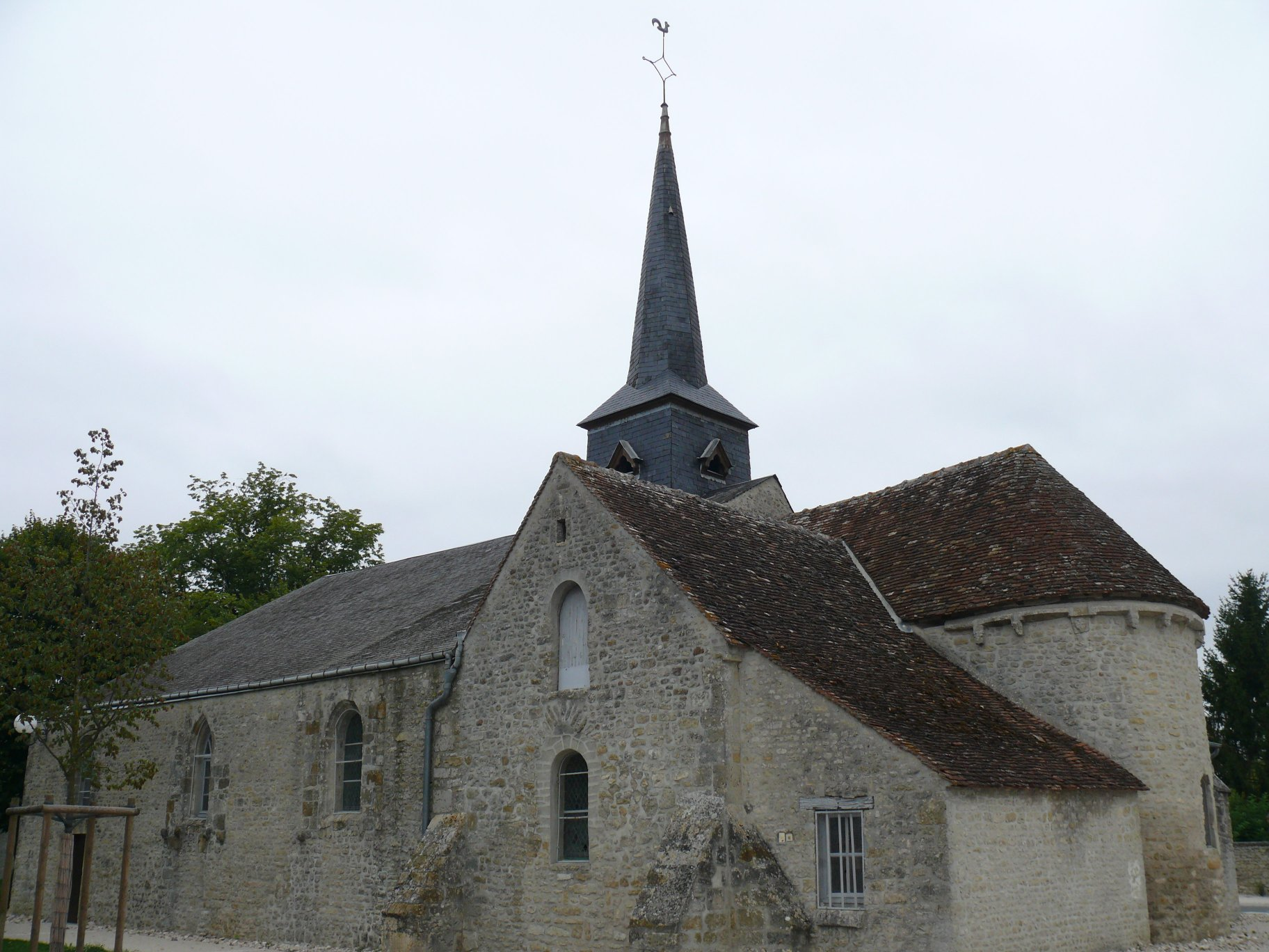 Saint-Laurent's church of Bouzonville-aux-Bois (Loiret, Centre-Val de Loire, France).